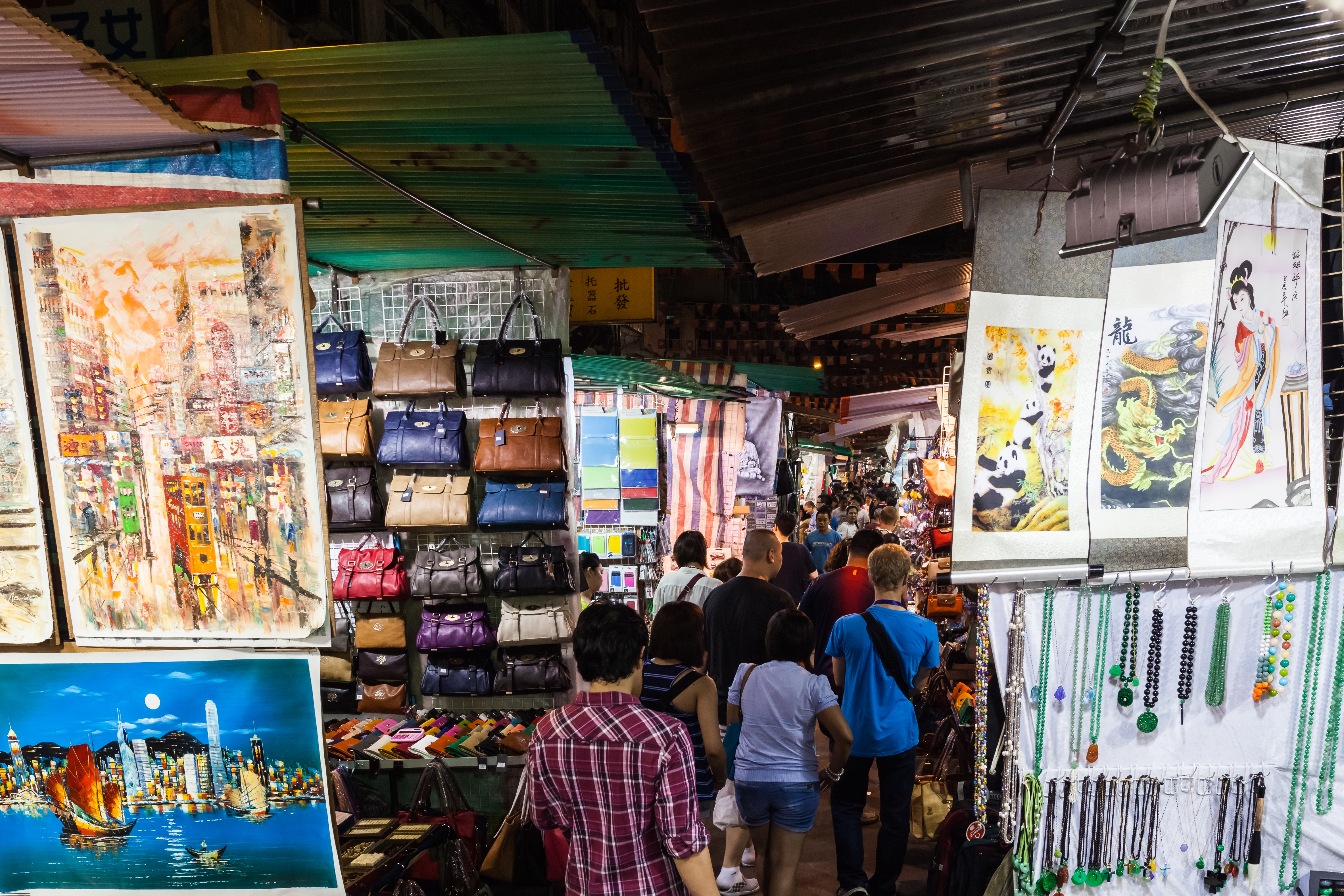 Market in Temple Str., Hong Kong